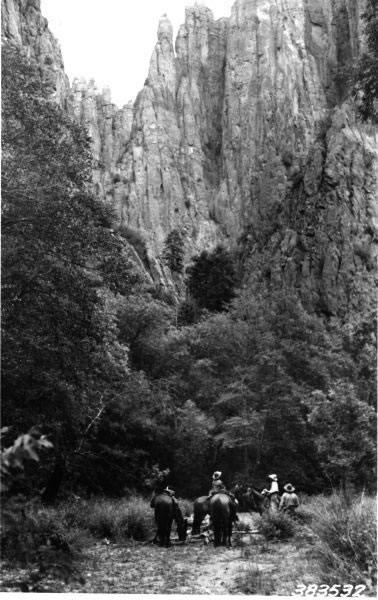 [Photo] 1922—Horseback riding for recreation in the Gila Wilderness. 1922—Horseback riding for recreation in the Gila Wilderness. Inspired by writings of Aldo Leopold, the Forest Service made the Gila Wilderness first of the many national forest wilderness areas. Photo by W. H. Shaffer FS #383532